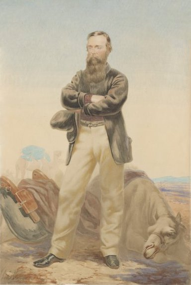 Portrait of Robert O'Hara Burke [picture] [ca. 1860] 1 watercolour ; 43.8 x 29.7 cm.